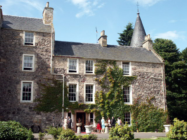 Fernie Castle. Romantic hideaway for Kings and Queens, Squires and Ladies.